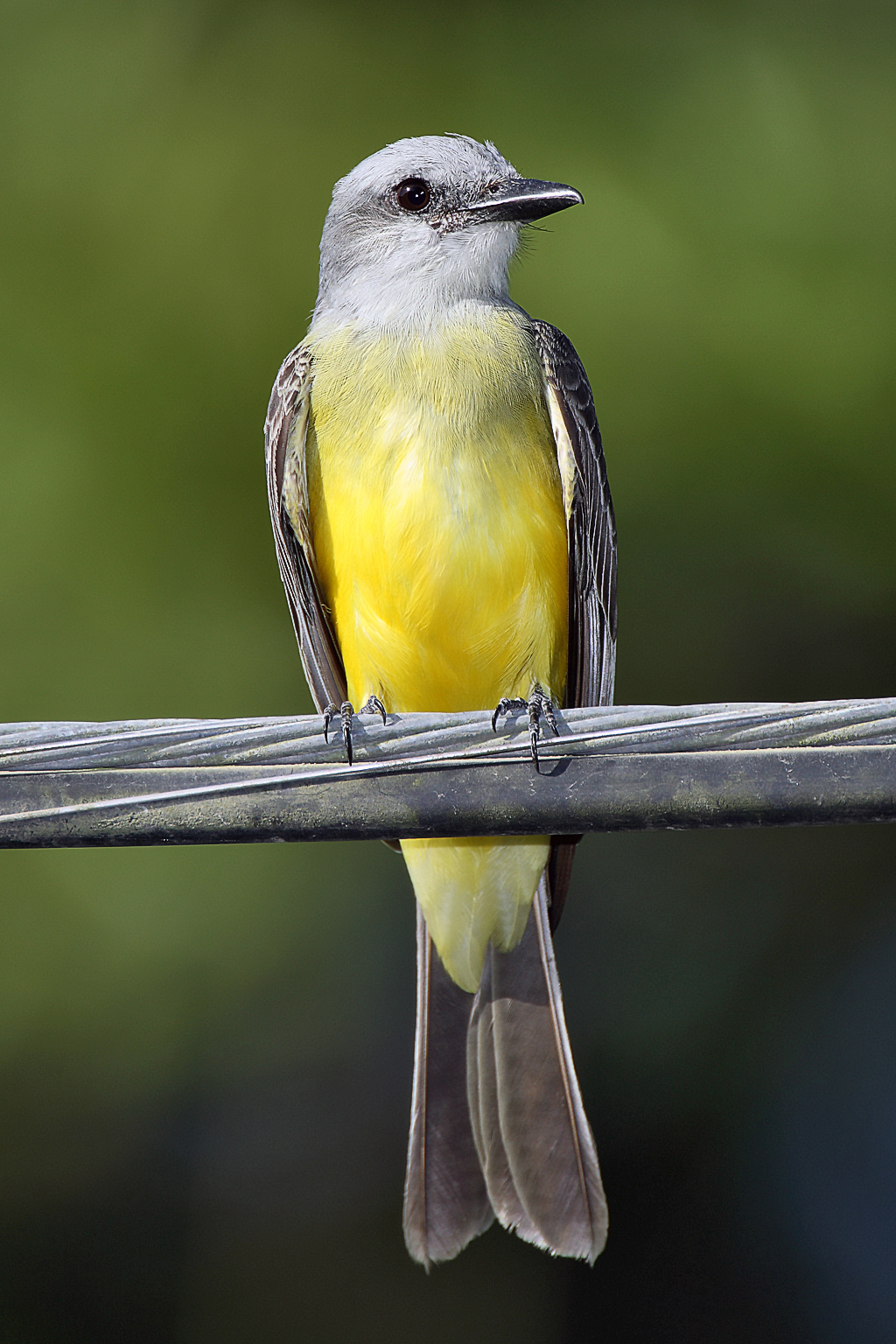 Tropical Kingbird -- Panama City, Panama -- 2008 January